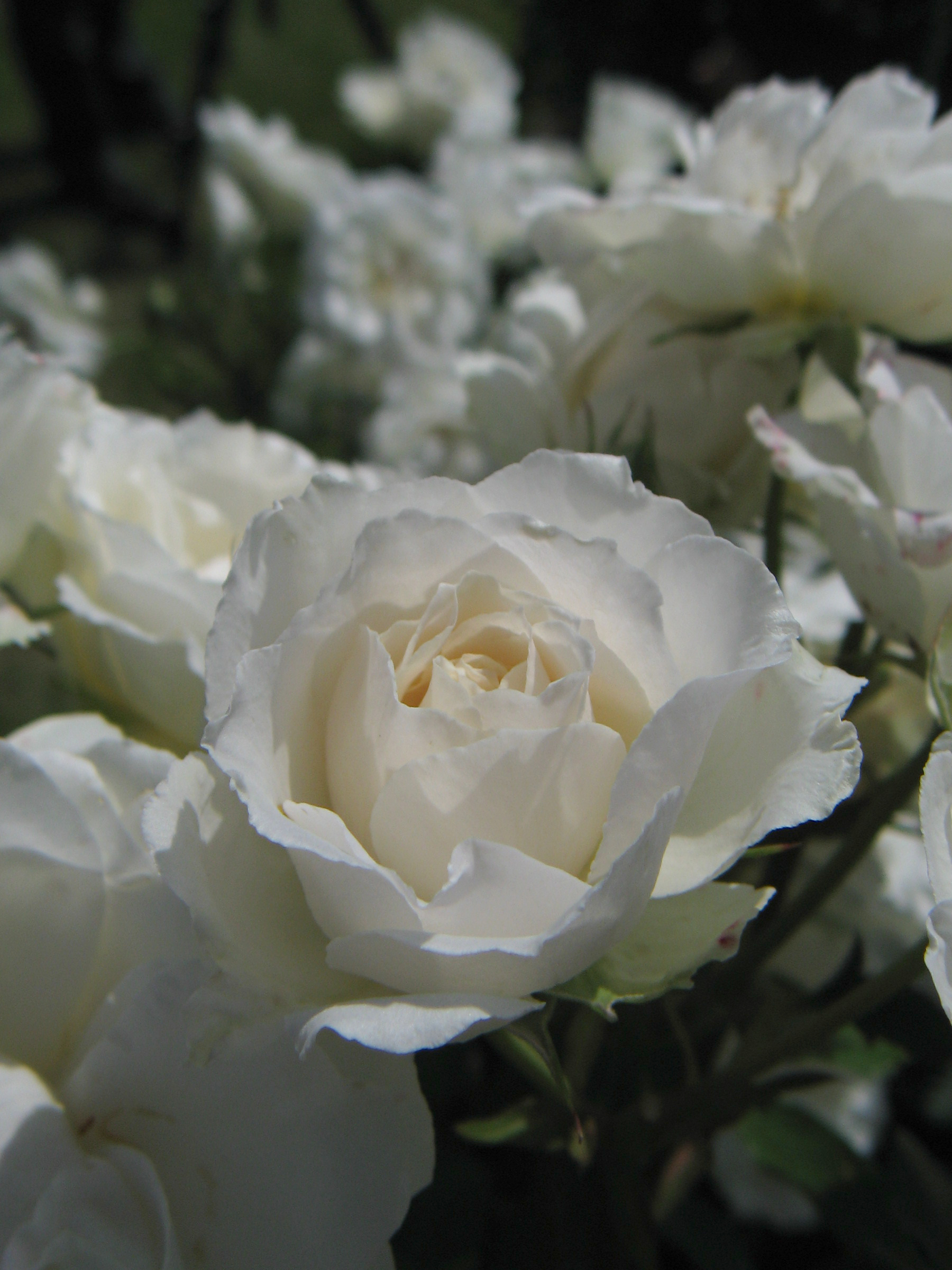 Rosa cv 'Princess of Wales', FL, Harkness (1997), Flower Festival Commemorative Park Seta Kani, Gifu Japan.